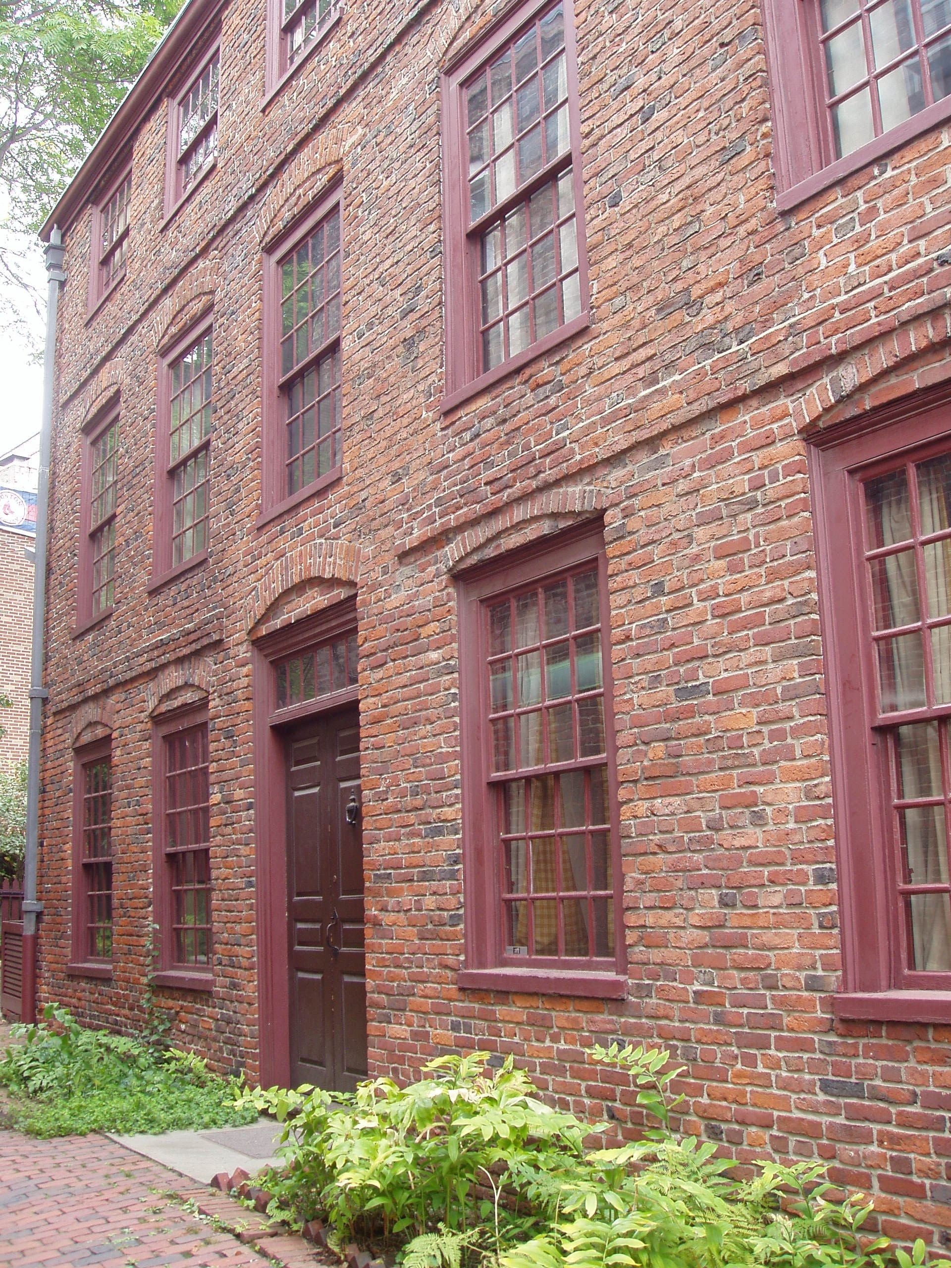 Pierce-Hichborn House, 19 North Square, Boston, Massachusetts (front view). Photograph taken by me, September 2005.